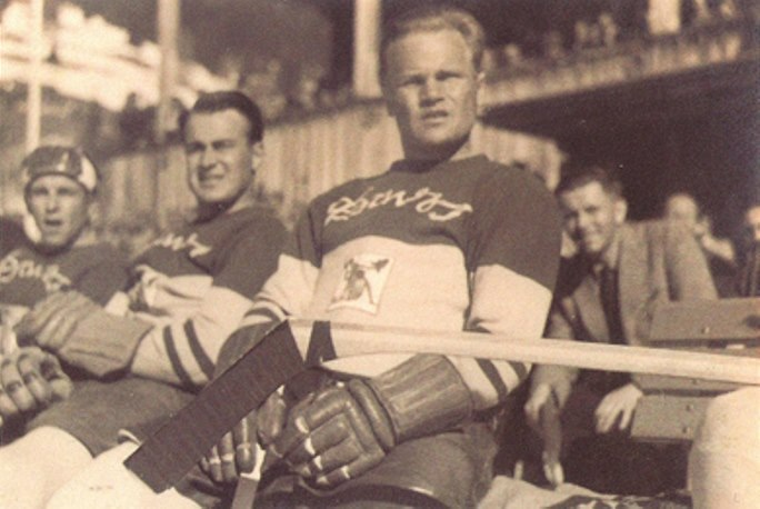 Portrait of Miroslav Sláma.